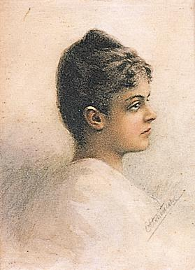 Mary Vetsera